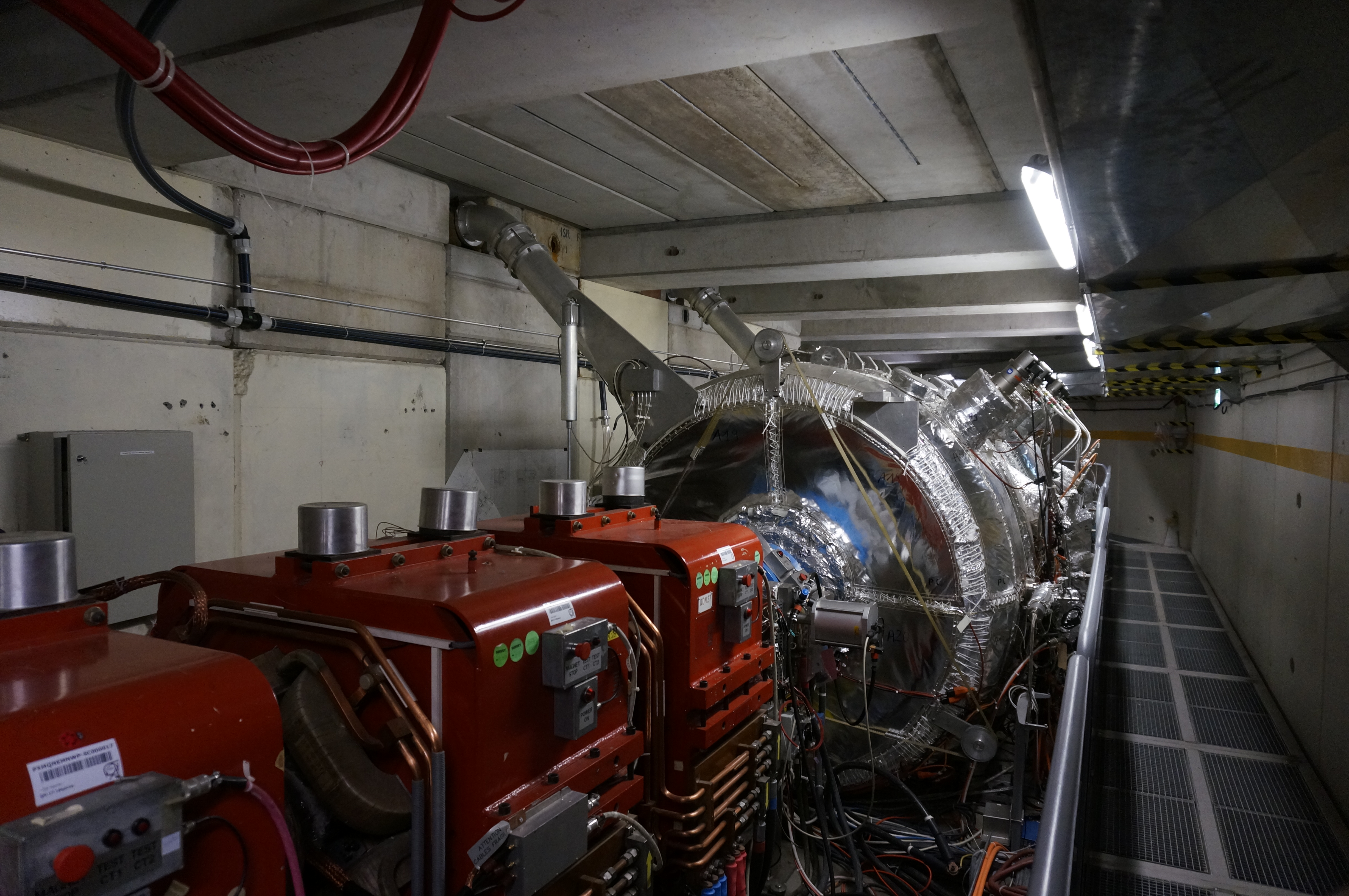 CERN Antimatter factory - antiproton decelerator main device